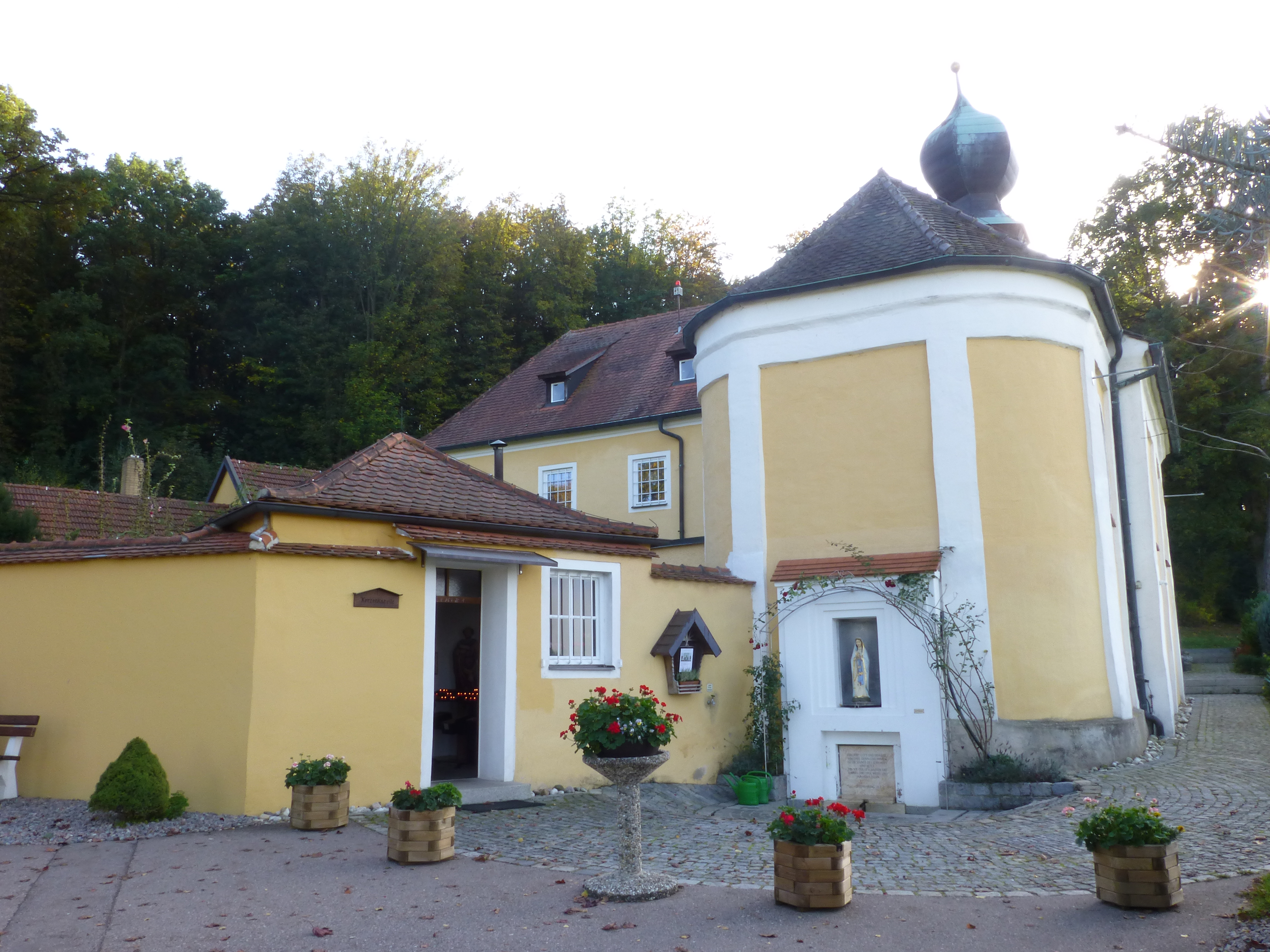 The hermitage of Frauenbründl, Bad Abbach, sacred well